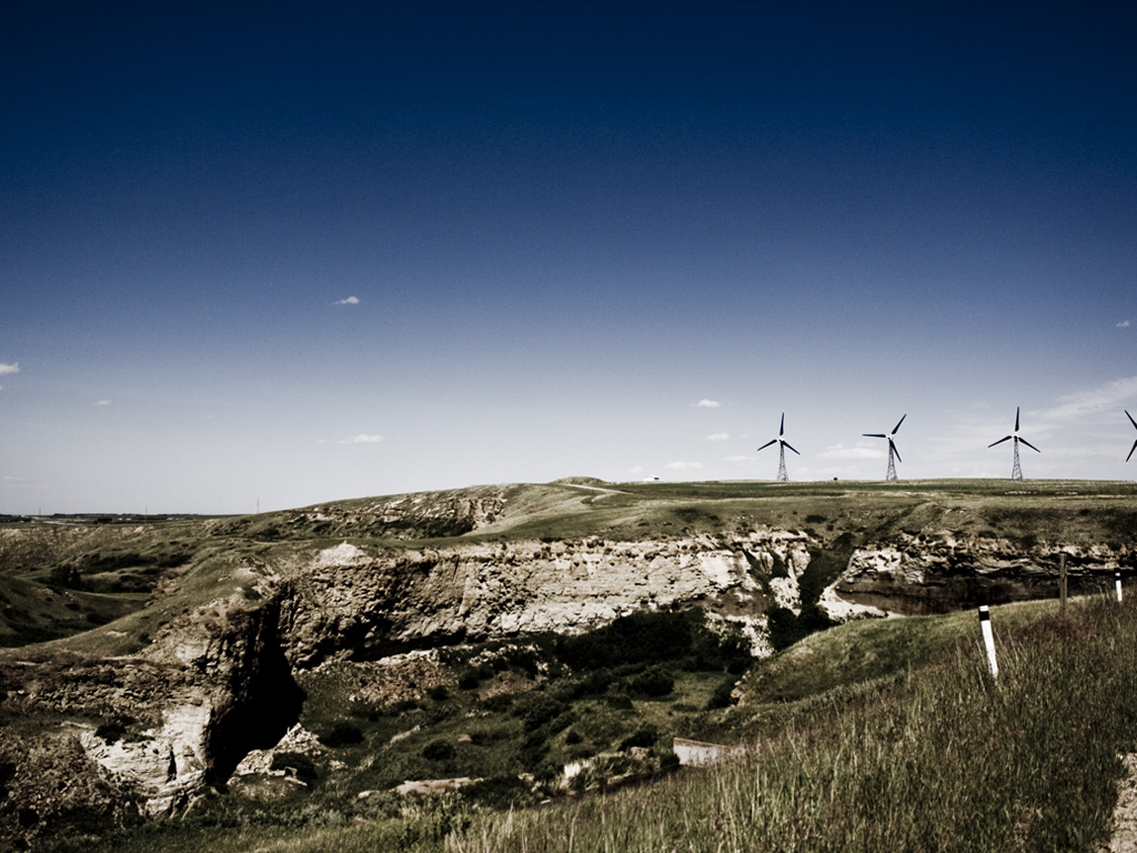 Windmills and coulees in Southern Alberta. Go to for more.